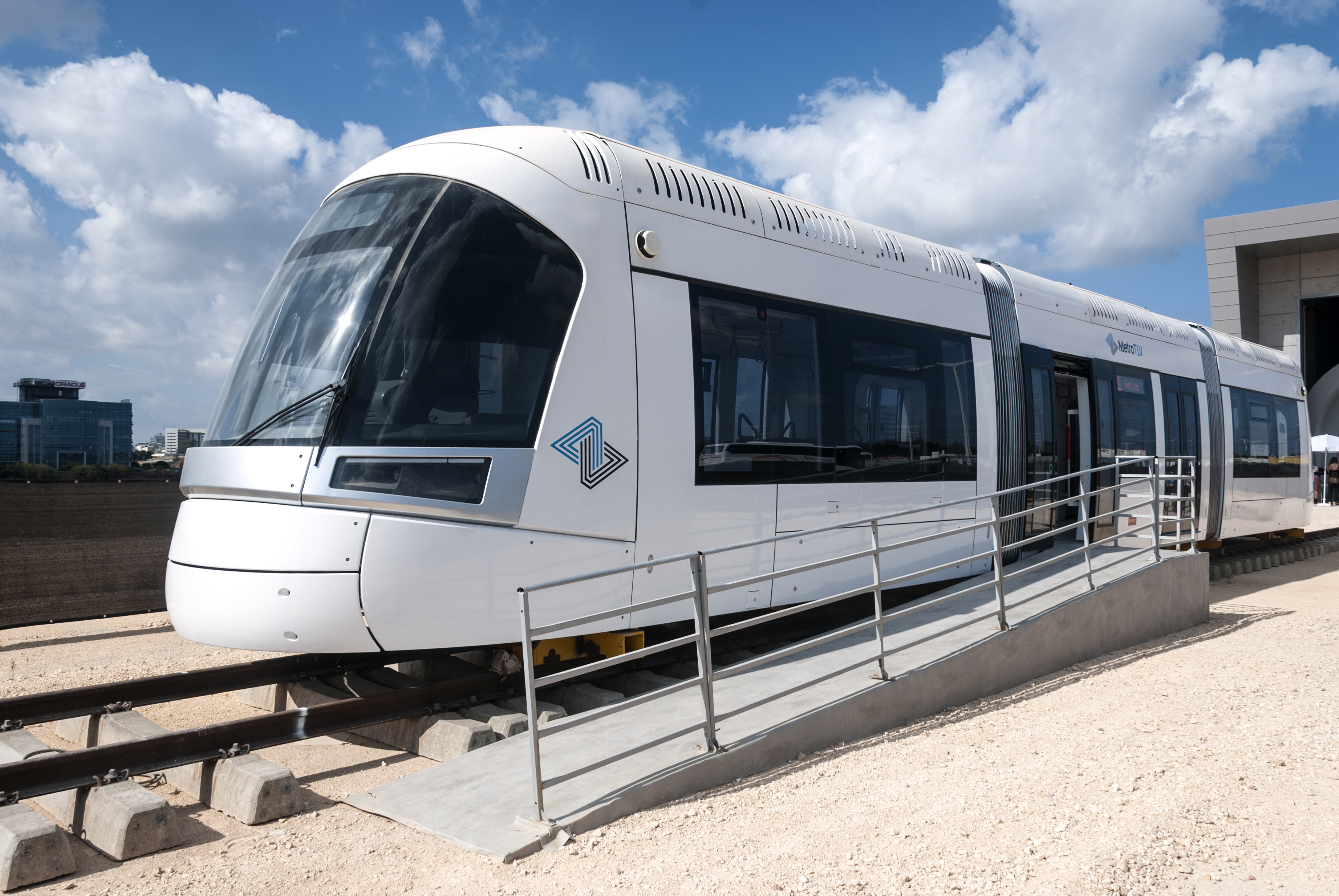 A shorter prototype of the Tel Aviv Red Line LRT train car (carriage).